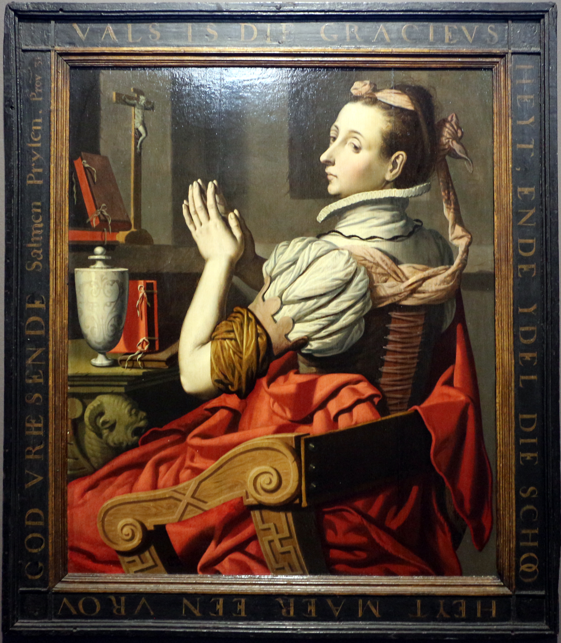 Paintings in the Museum Catharijneconvent